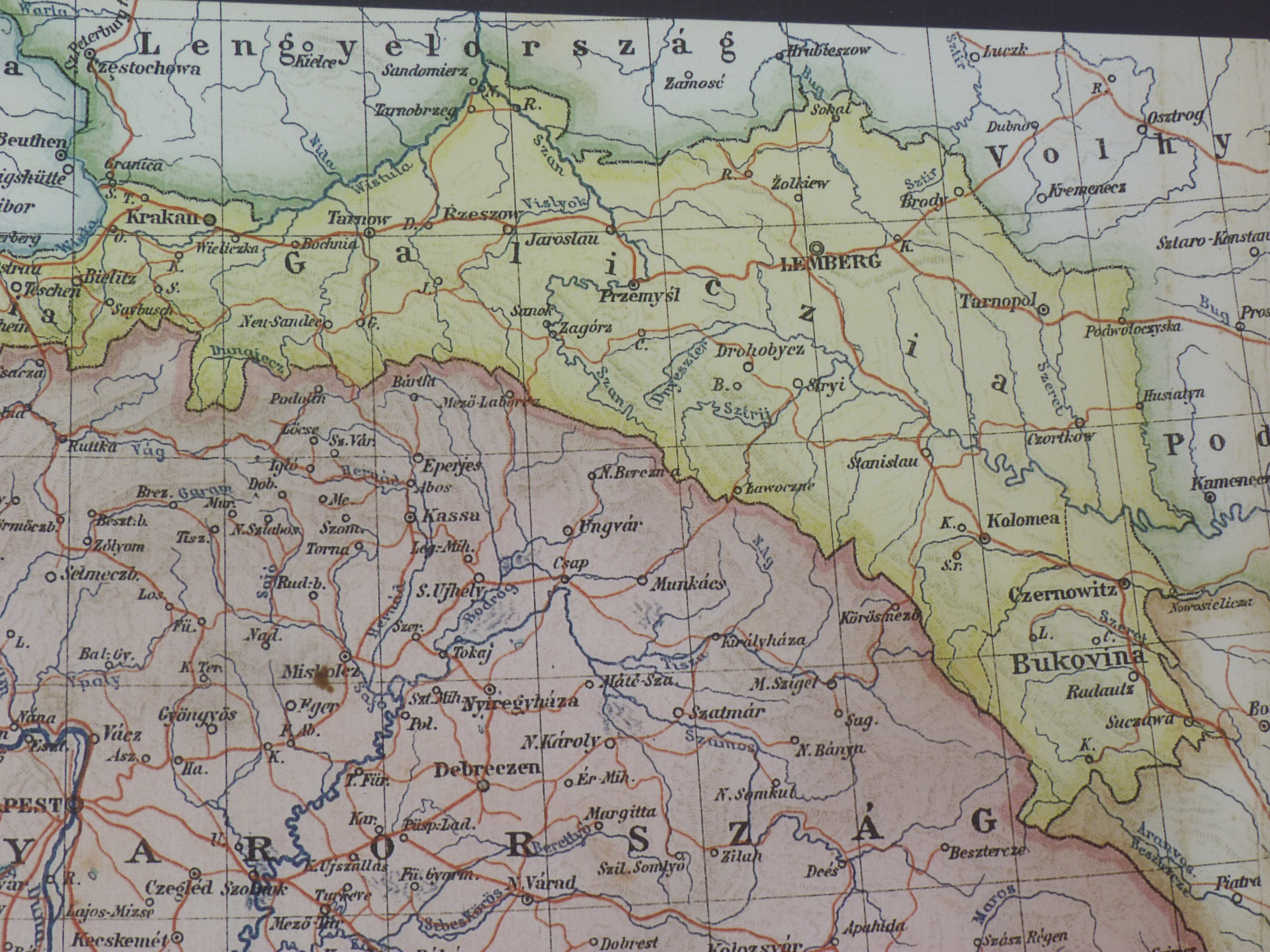 Historical map of railway lines in Galicia. This image is an excerpt of a larger map showing the Kingdom of Hungary.